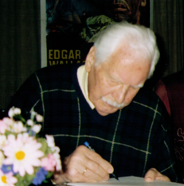 Actor Friedrich Schoenfelder at an Edgar Wallace convention in Titisee-Neustadt, Germany